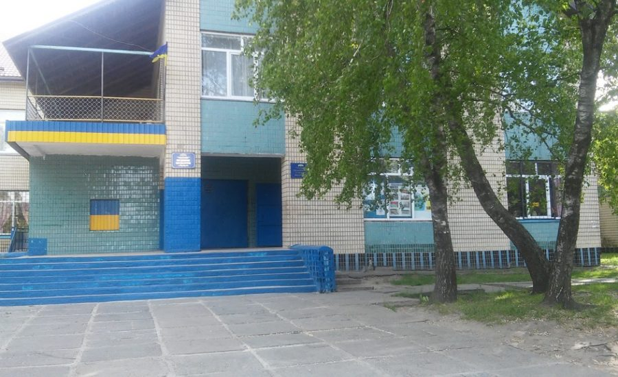 Требухівський будинок культури та бібліотека, с. Требухів Броварського району Київської області. Травень 2017 року